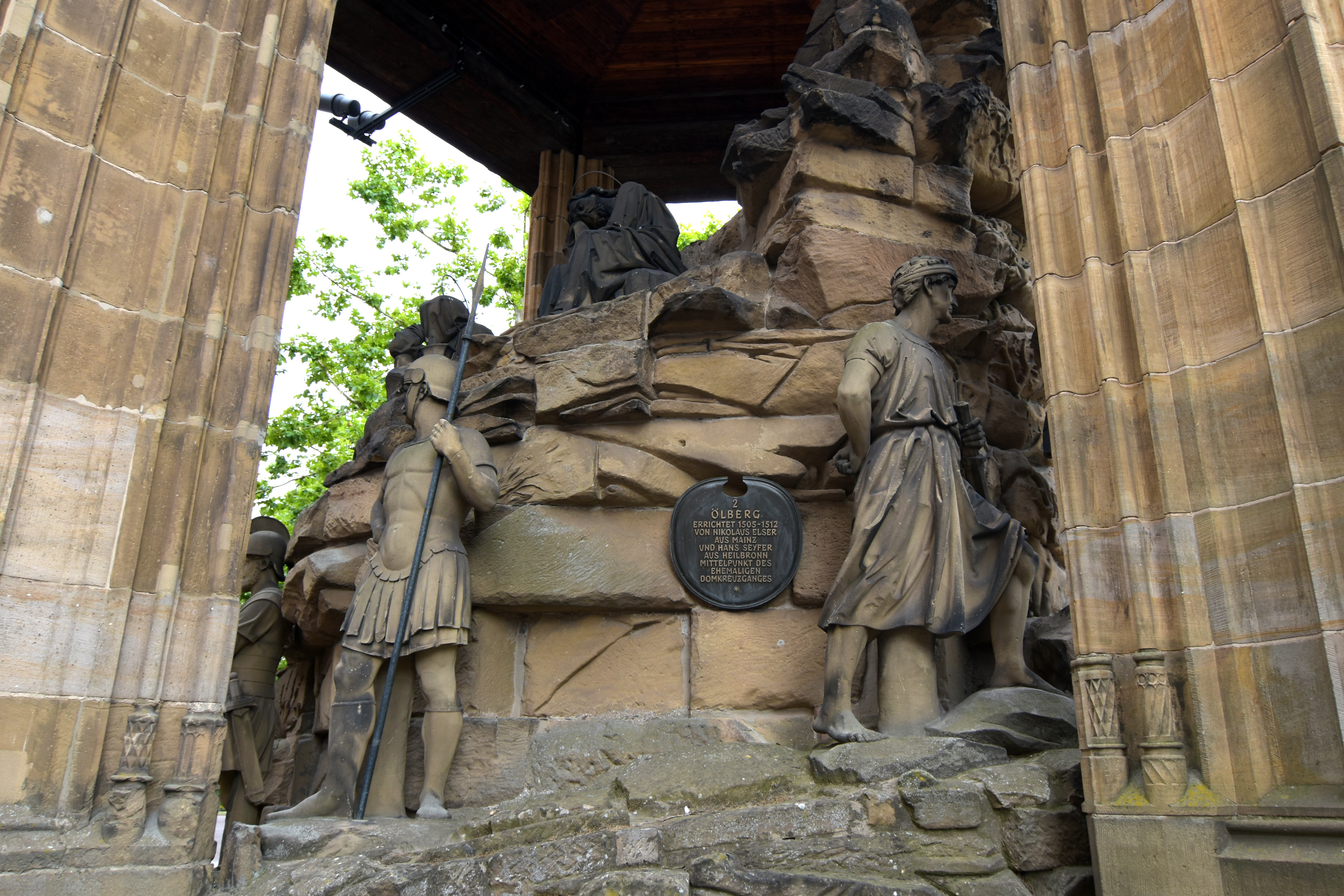 Speyer